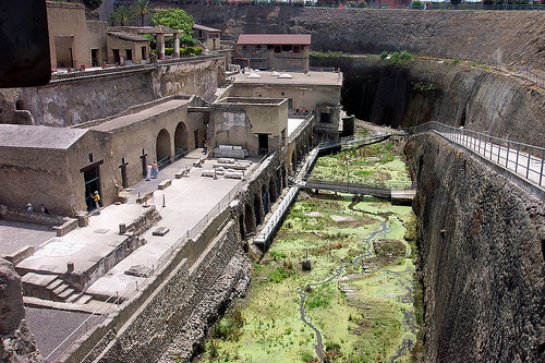 waterfront